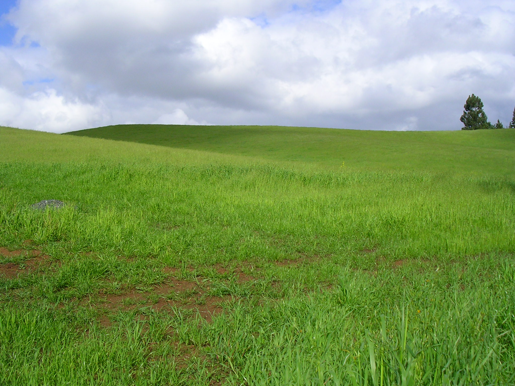 The Stanford foothills in spring, California.